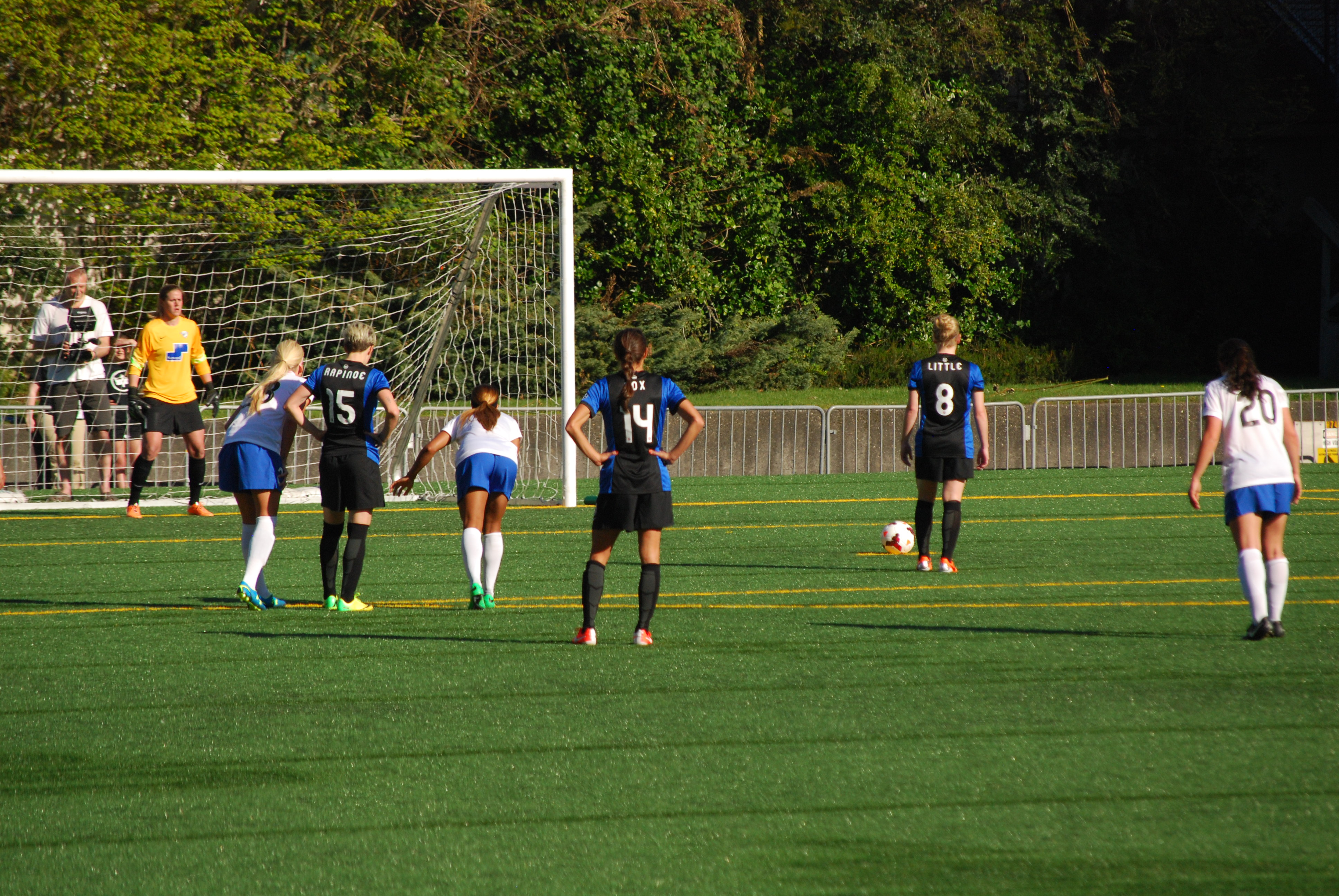 Seattle Reign FC vs Boston Breakers, April 13, 2014 at Memorial Stadium in Seattle, Washington